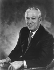 U.S. Senator Ralph T. Smith (R-IL), who served 1969-1970